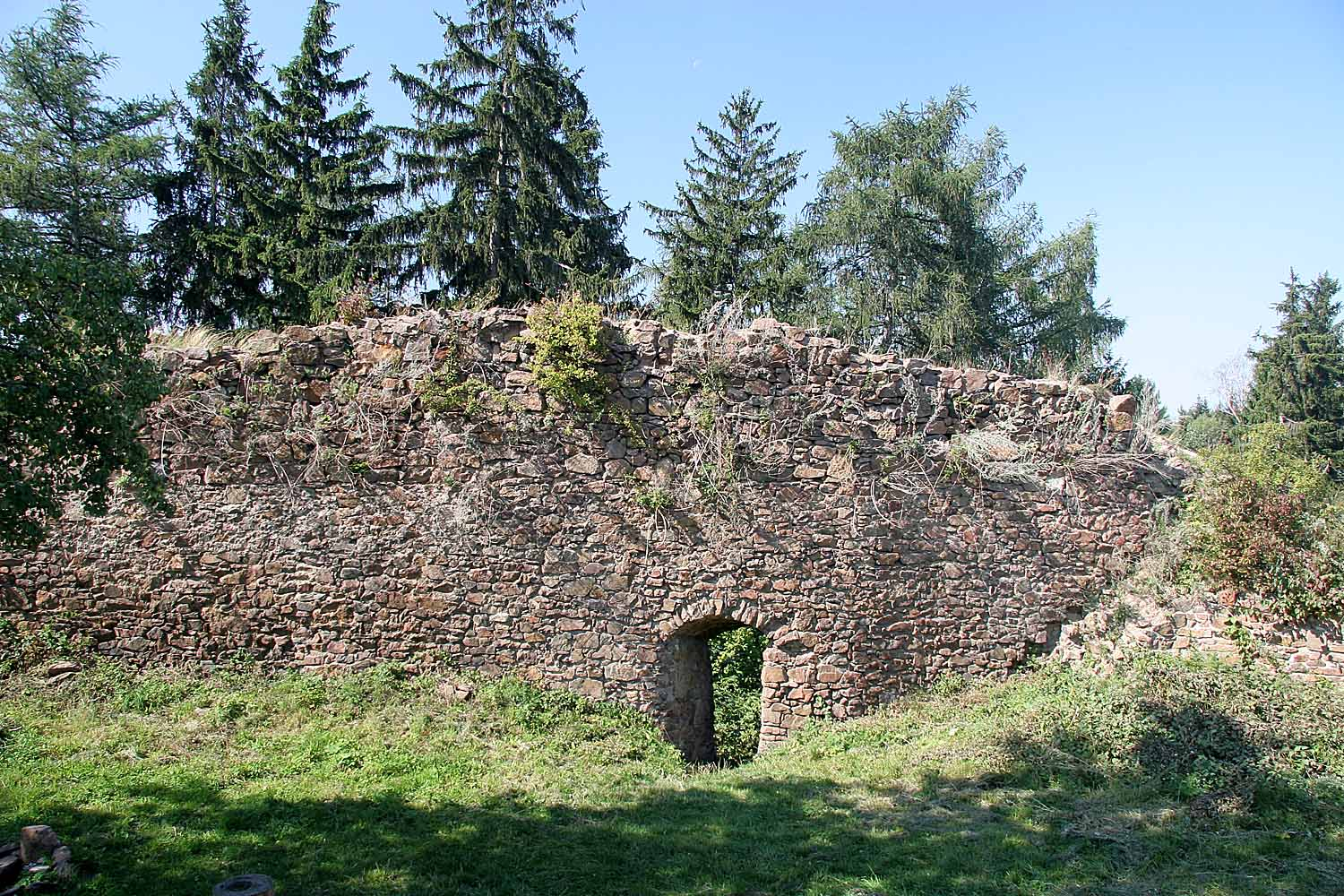 Žumberk Castle ruin, Chrudim District, Czech Republic autor: Prazak date: 14. 9. 2006